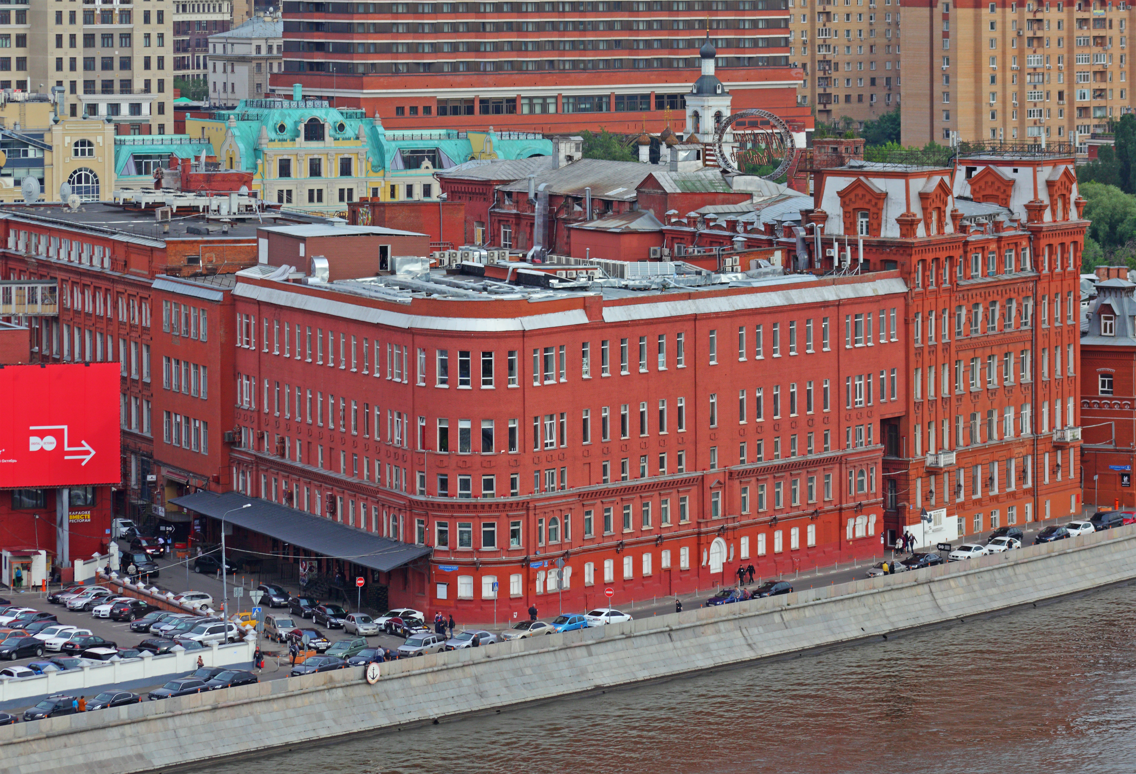 Moscow, Russia. Bersenevskaya Embankment, former Red October Factory